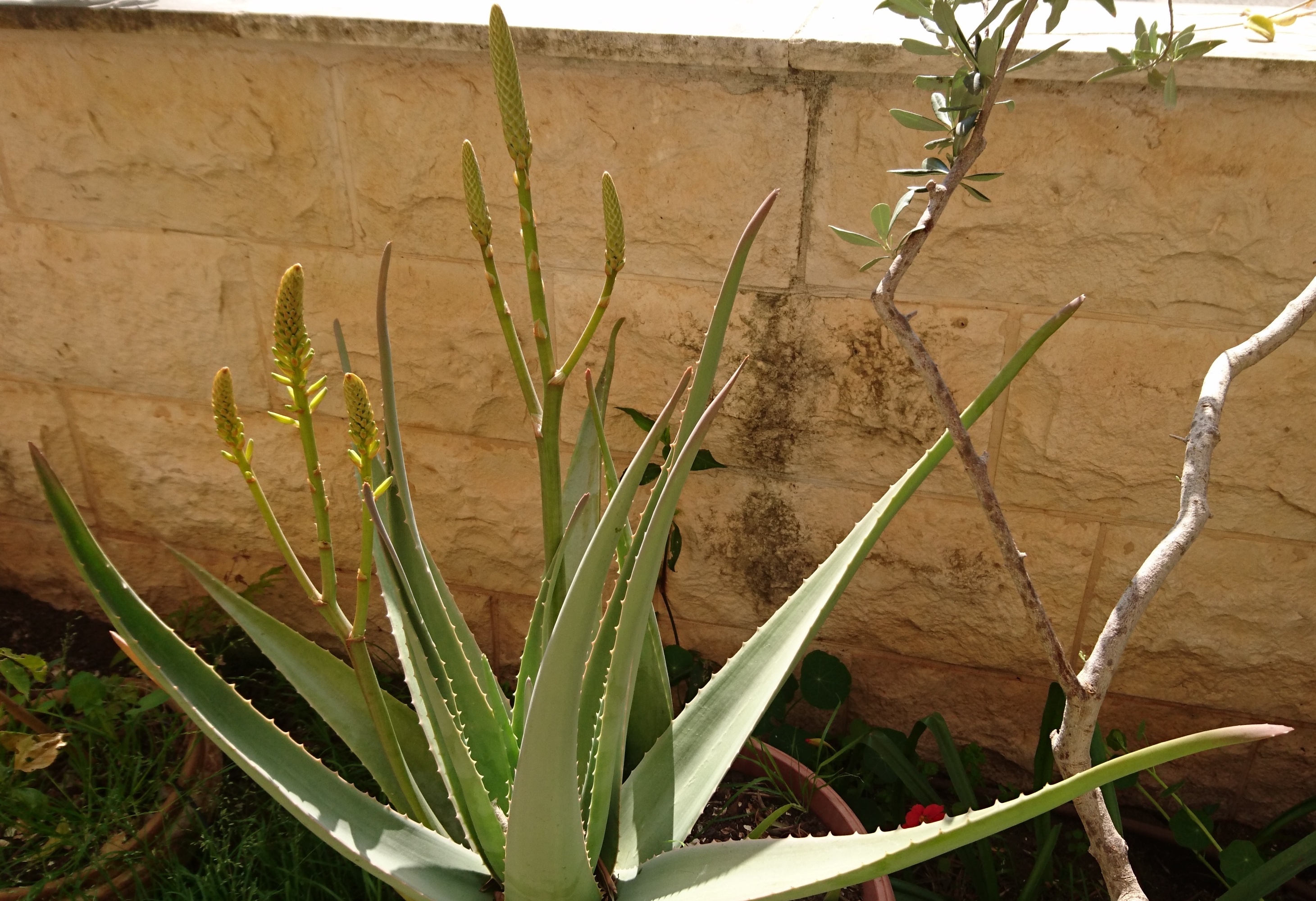 Aloe Vera Flowering